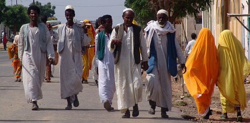 Agordat, Eritrea.